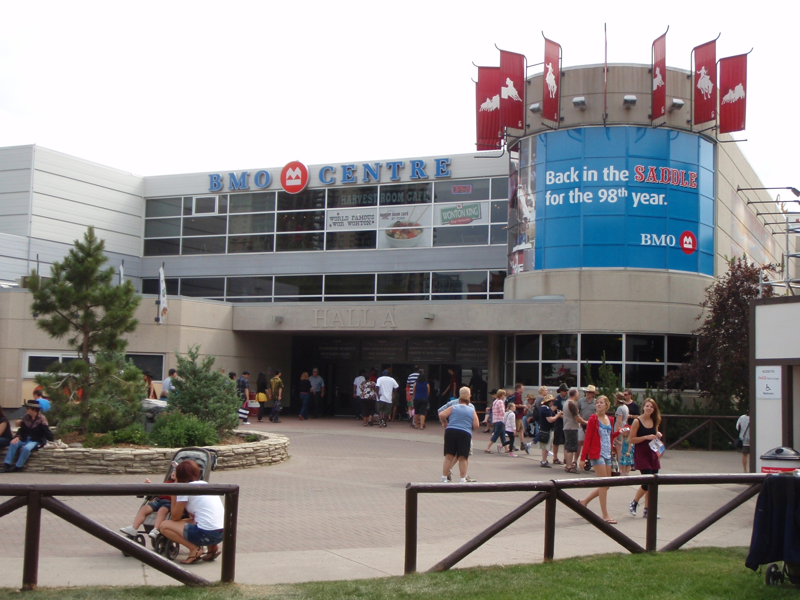 BMO Centre "Hall A" entrance in Stampede Park, Calgary, Alberta.